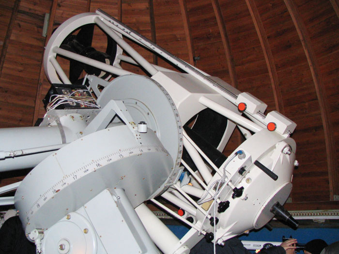 Zeiss-600 telescope on ZNB station (Zvenigorod, Moscow region)